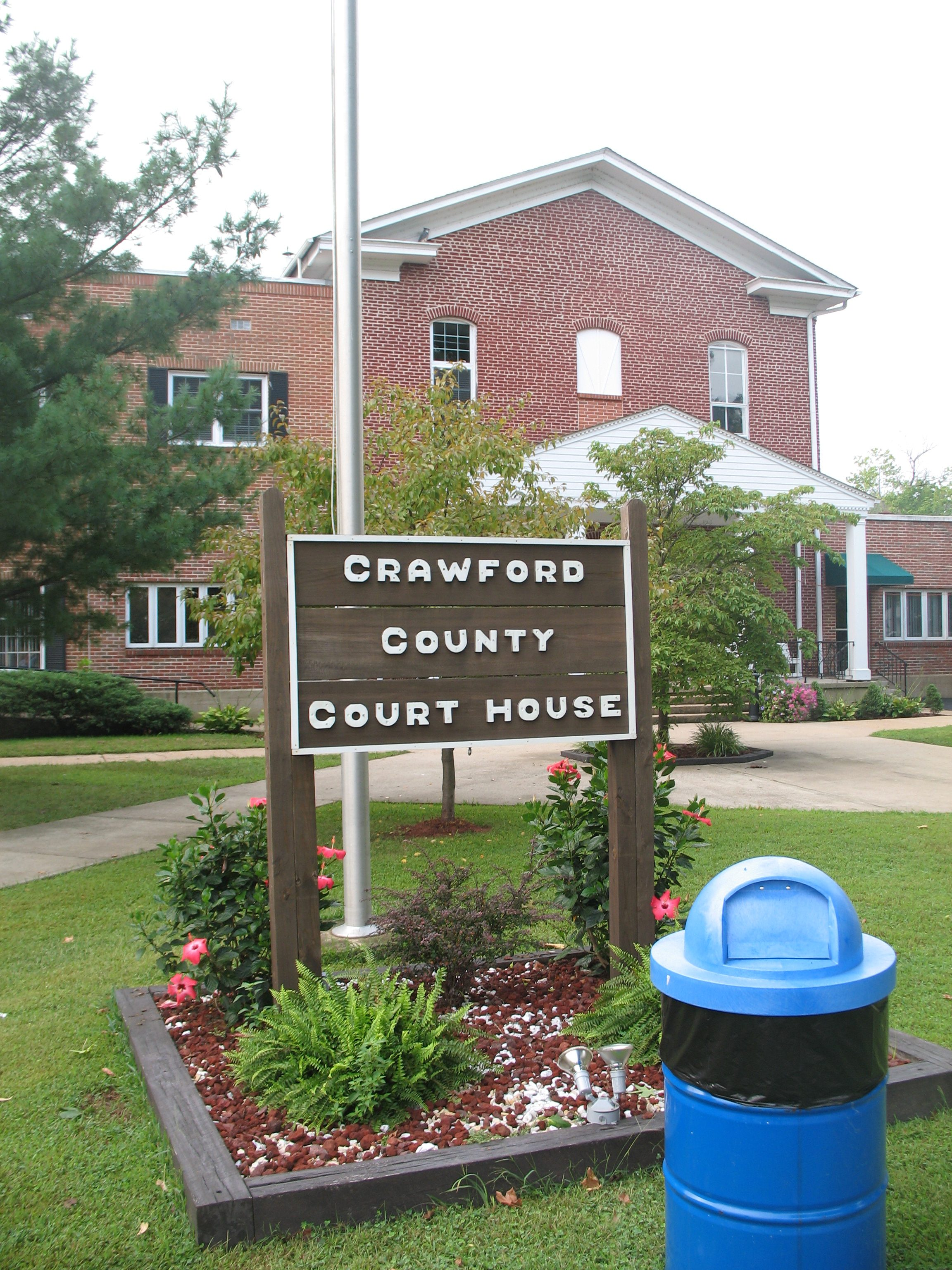 Crawford County Courthouse in Steelville. Photo by poster in September 2007.